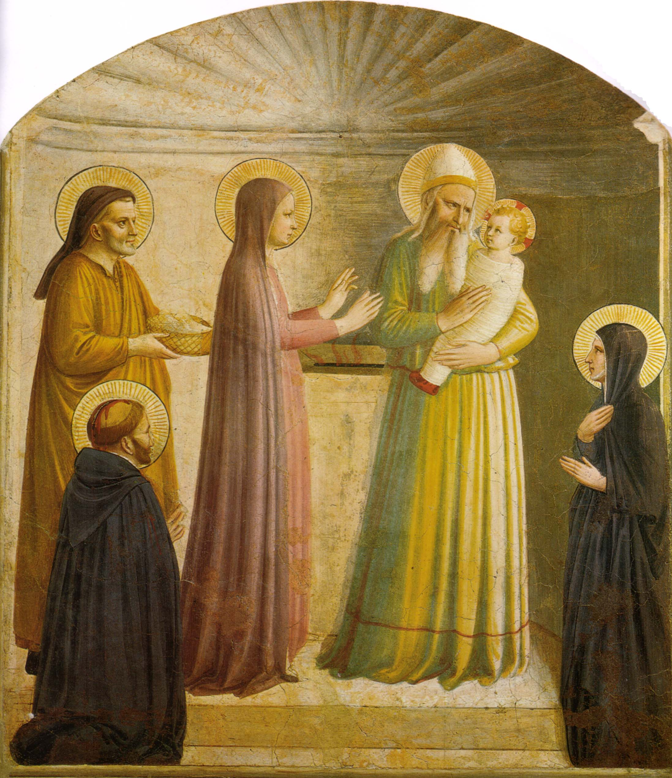 Presentation of Jesus at the Temple by Fra Angelico (San Marco Cell 10)